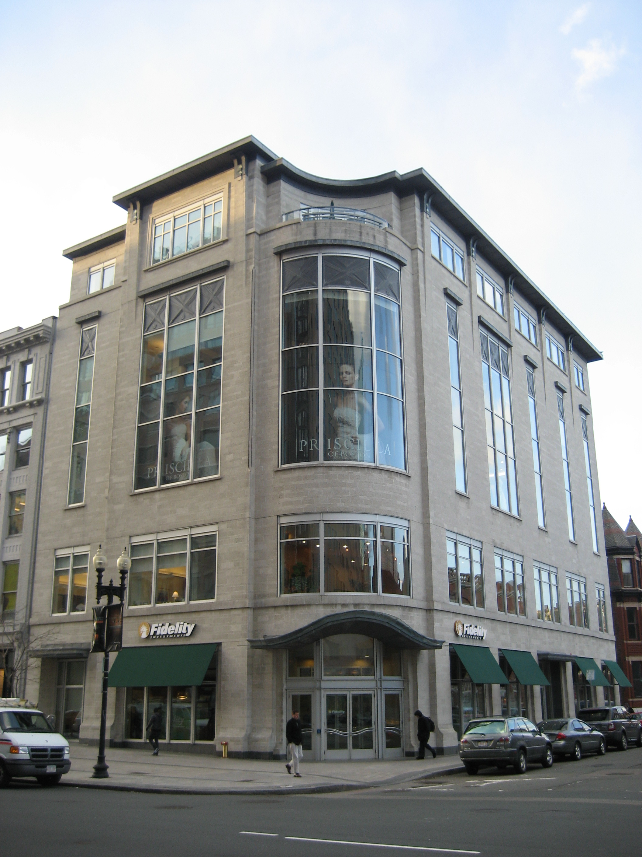 Fidelity Investments Branch on Boylston Street in Boston.